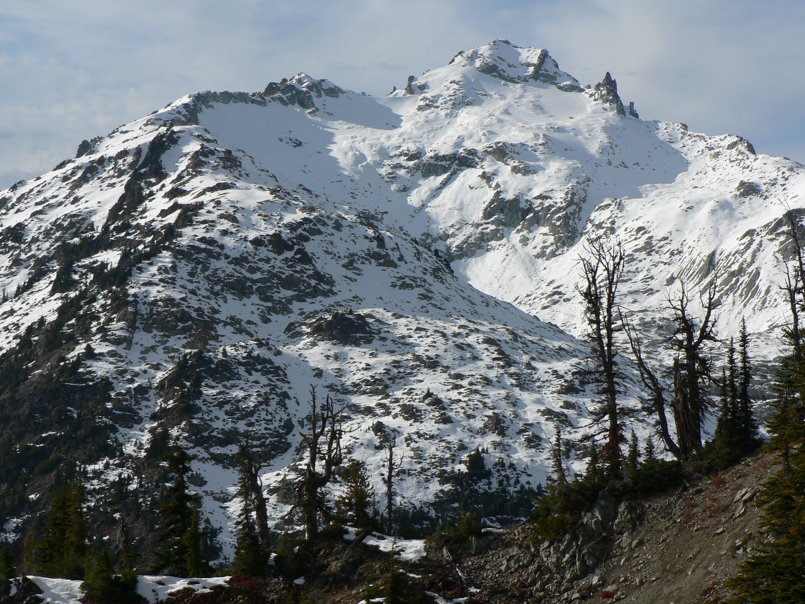 Mount Daniel (7960+ feet)